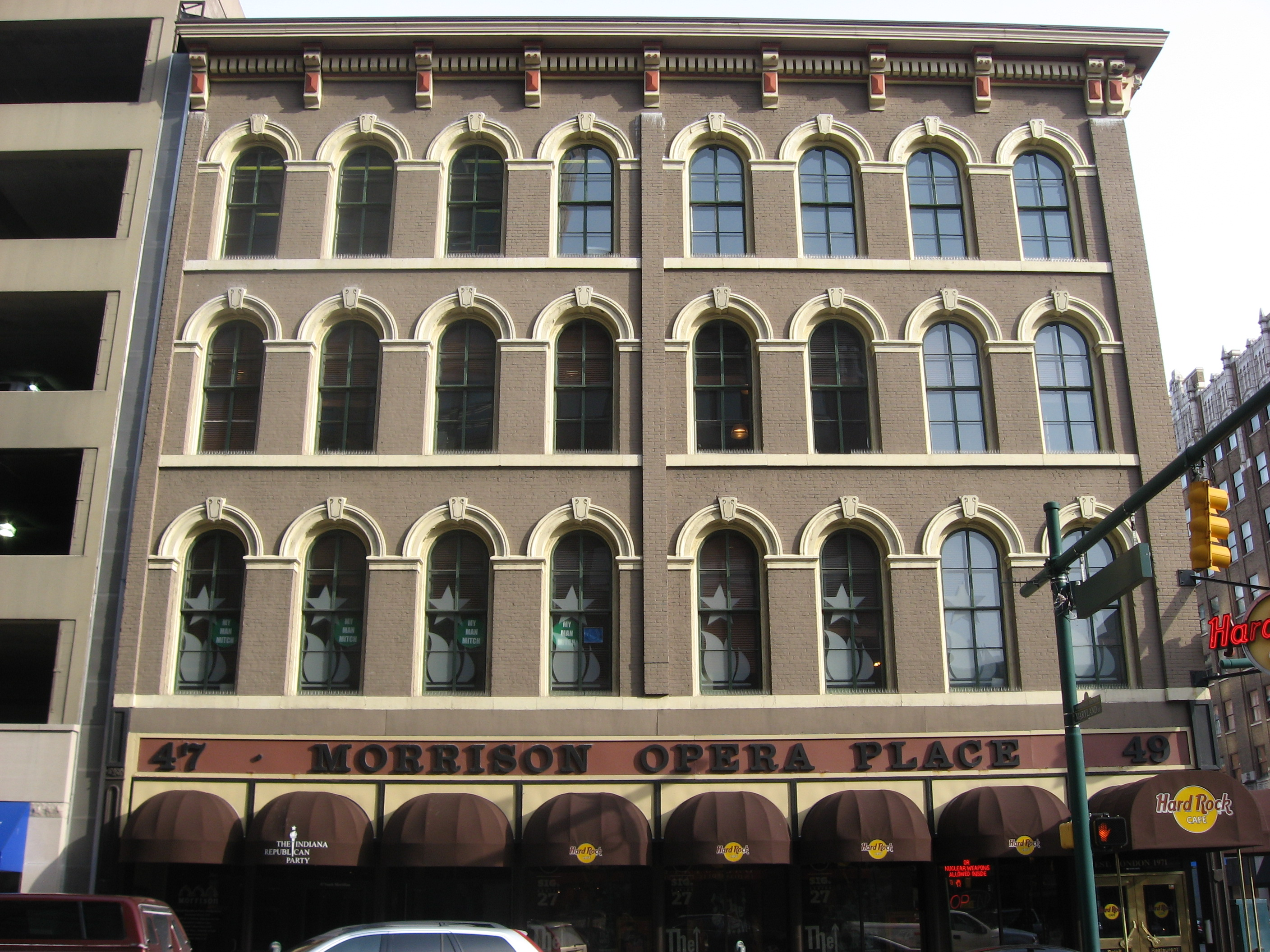 Front of the Morrison Block (M. O'Connor Grocery Wholesalers), located at 47 S. Meridian Street in downtown Indianapolis, Indiana, United States. Built in 1870, it is listed on the National Register of Historic Places, and it is a part of the Register-listed Washington Street-Monument Circle Historic District.